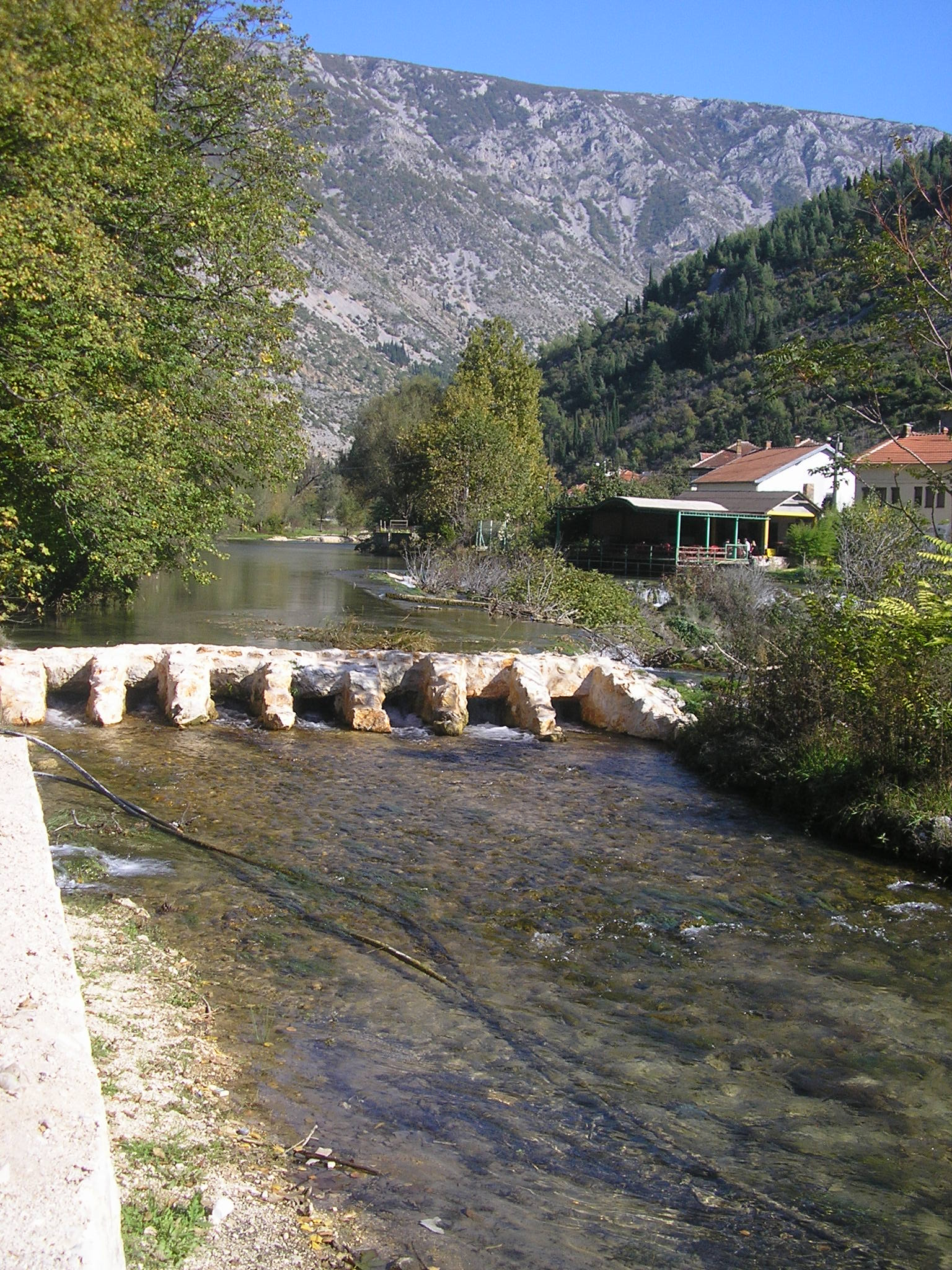 Bregava River in Stolac